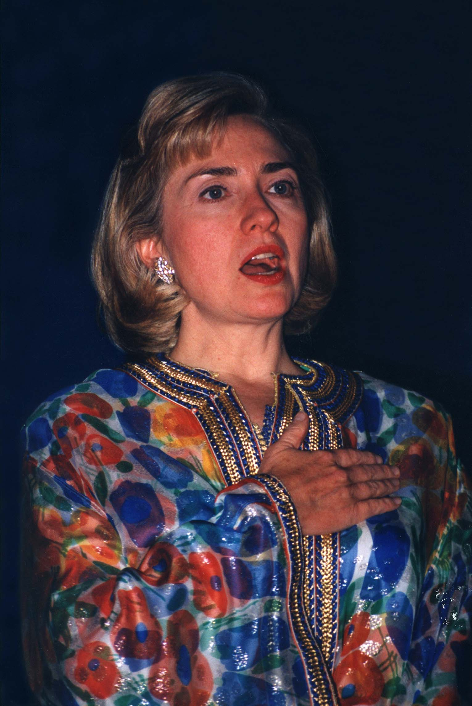 Hillary Clinton Pledging her allegiance to the flag Washington D.C. 1997 © copyright John Mathew Smith 2001